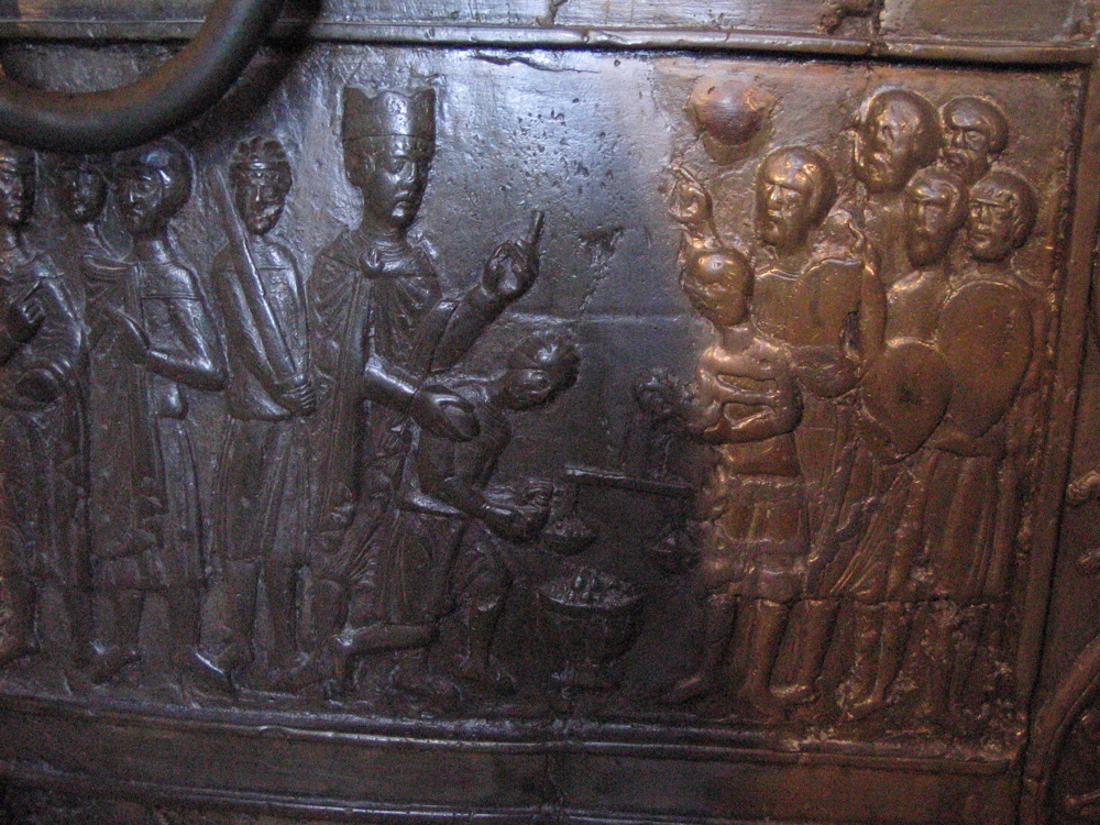 Gniezno Doors, Boleslaw I of Poland buys the body St. Adalbert back from Prussians